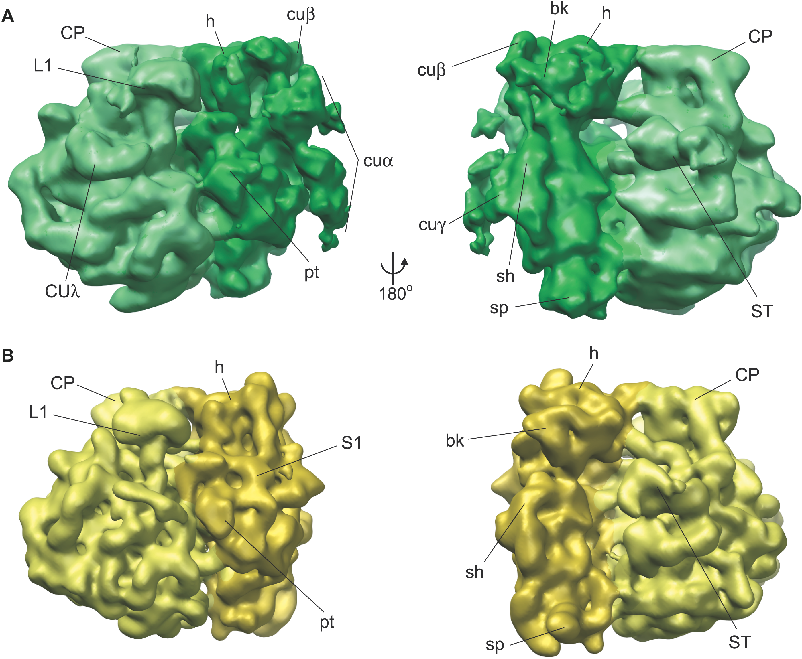 (A) Chloroplast ribosome (green). Compared to (B) bacterial ribosome cryoEM structure (yellow; [29]). Left and right views are related by 180° rotation as indicated. At left is a classic side view of the ribosome with the large subunit on the left and the small subunit on the right; right view shows the small subunit on the left and the large subunit on the right. Common ribosome landmarks as well as chloroplast-unique structures are clearly defined on the chloroplast ribosome, and have been labeled. bk, beak; CP, central protuberance; cuα, cuβ, cuγ, and CUλ, chloroplast-unique structures; h, head; L1, L1 arm; pt, platform; sh, shoulder; sp, spur; ST, stalk. (description taken from PLOS article)